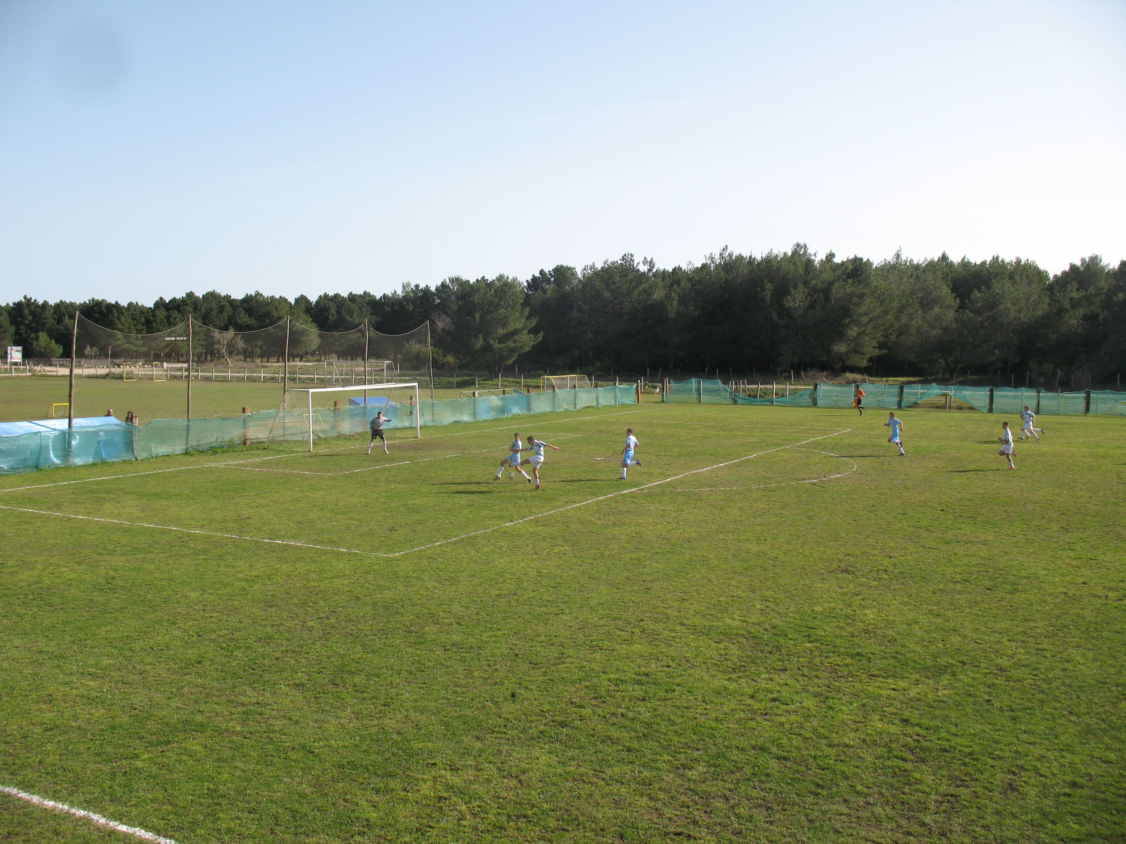 Federal vs. Petrovac playing in Stadion Safari, Ulcinj.